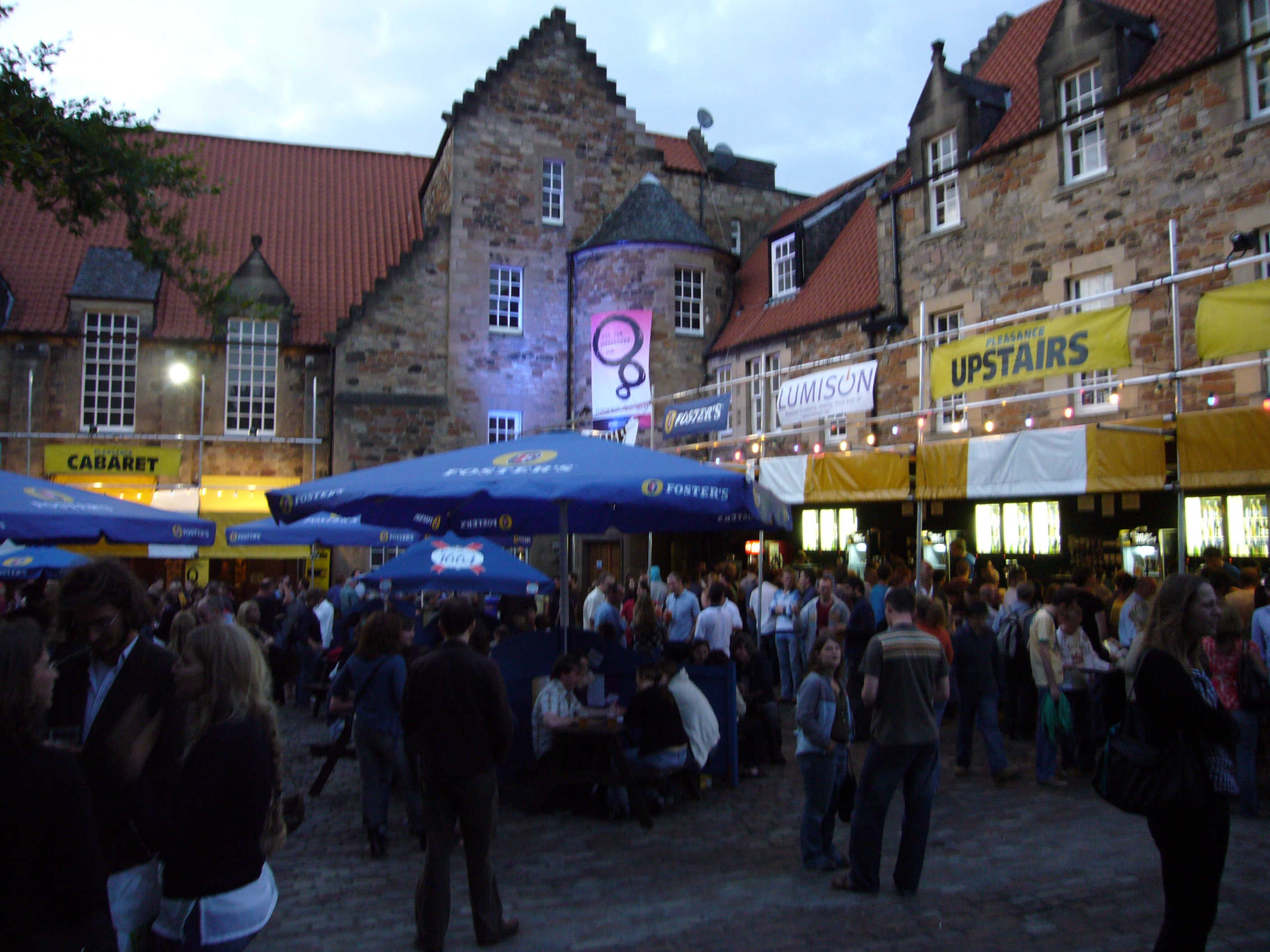 The Pleasance Courtyard during the Edinburgh Fringe Festival 2006